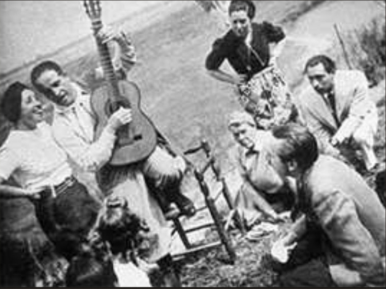 Elvirita, Florencio Molina Campos' wife, singing for Walt Disney (squatted) at Estancia Los Estribos on Reconquista River.